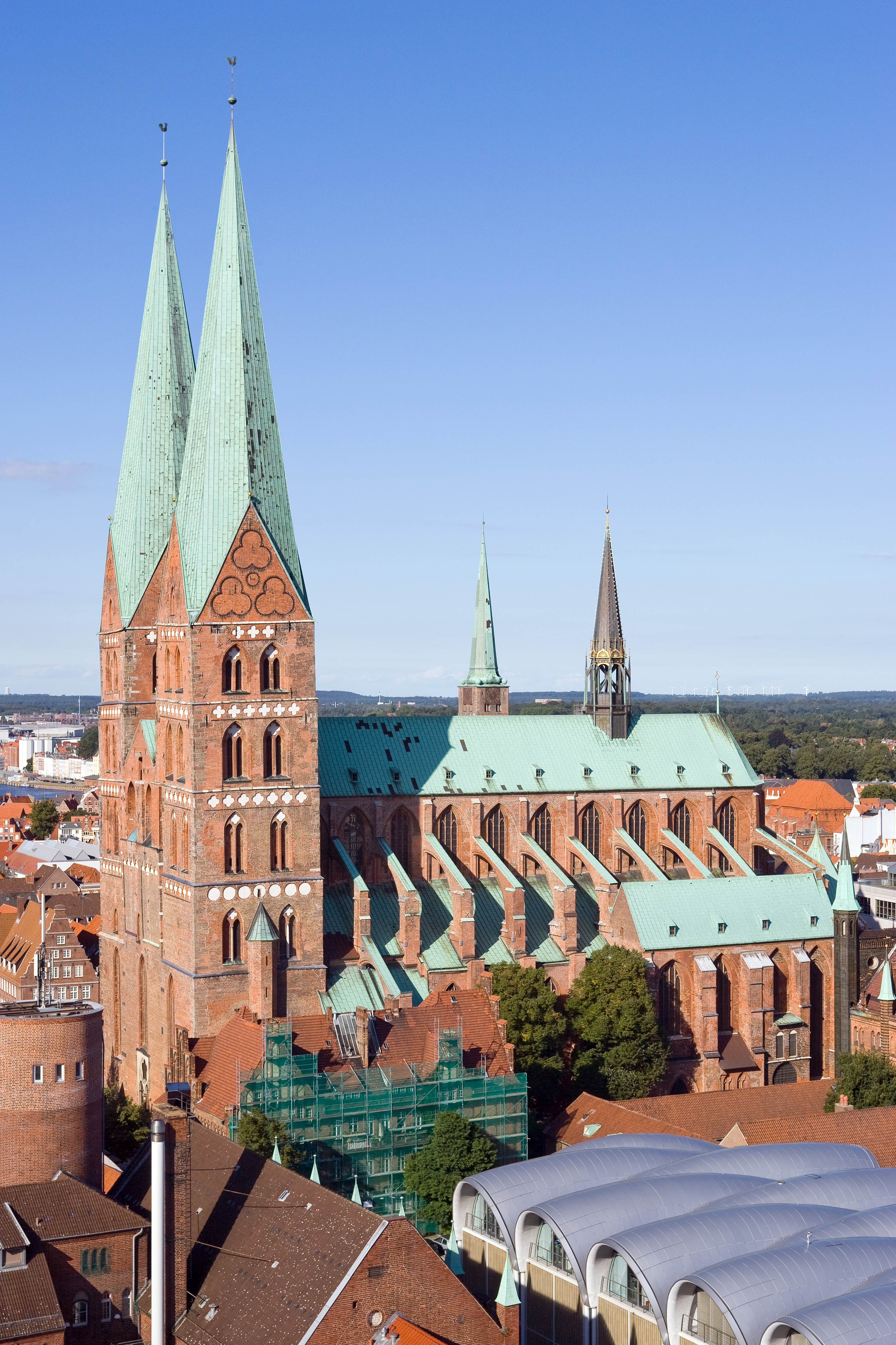 Lübeck: St. Mary's Church as seen from the tower of St. Peter's Church